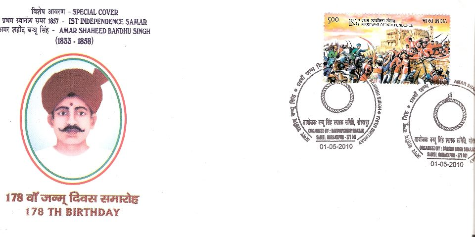 Bandhu Singh was a Hero of first war of Independence of India. British Government hanged Bandhu Singh on 12th Aug. 1858. Special Cover was released on his 178th Birth Day from Gorakhpur.